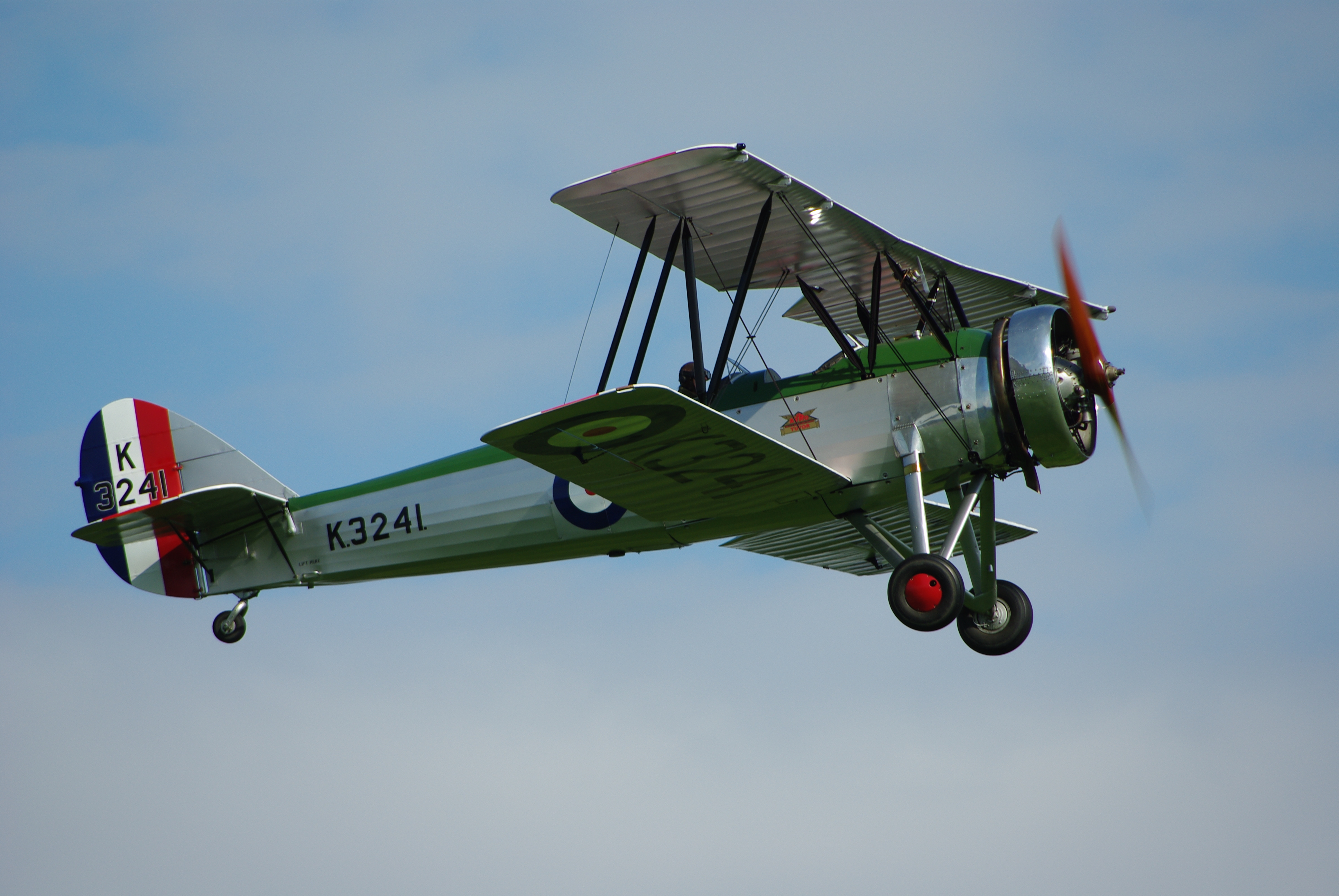 Avro Tutor of Shuttleworth collection 7 September 2008. G-AHSA was used for communication duties during the Second World War, struck off December 1946 and purchased by Wing Commander Heywood. After suffering engine failure in the early stages of the filming of Reach for the Sky, it was purchased by the Shuttleworth Collection and restored to flying condition. Up to the end of 2003, G-AHSA was still flying as K3215 in RAF trainer yellow. Since January 2004 it has flown painted as K3241 in the colours of the Central Flying School. (The real K3241 built in 1933, served RAF College Cranwell, until transferred to the CFA in 1936.)